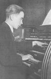 Albert Leblanc, Kathedralorganist in Luxemburg